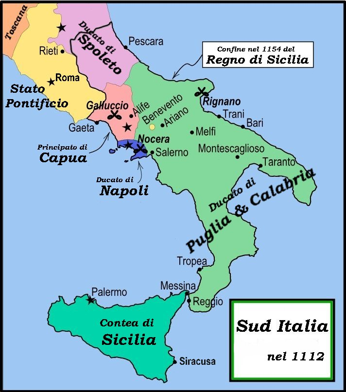 This is a political map of southern Italy in 1112 AD/CE, the date when Roger II of Sicily reached his age of majority, also showing the border of the Kingdom of Sicily in 1154, on his death. "The rarity of surviving records makes it impossible to draw a map of comital [counts'] responsibiities in southern Italy at the beginning of the twelth century." Matthew, p. 23. As noted by Matthew, the political situation in southern Italy is much more complex than this map shows. There were numerous counts and semi-independent cities throughout the region. Moreover, the near-constant rebellions and conquests continually re-arranged the map.